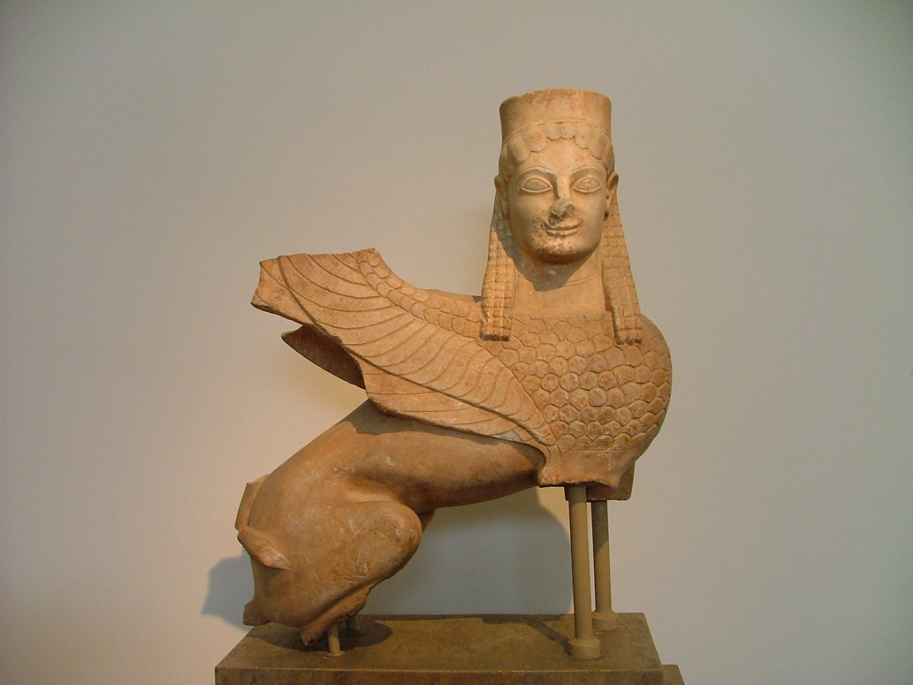 Statue of a sphinx. Pentelic marble. Found in Spata, Attica. One of the earliest known Archaic Sphinxes, it was once used as finial of a grave stele. About 570 B.C.